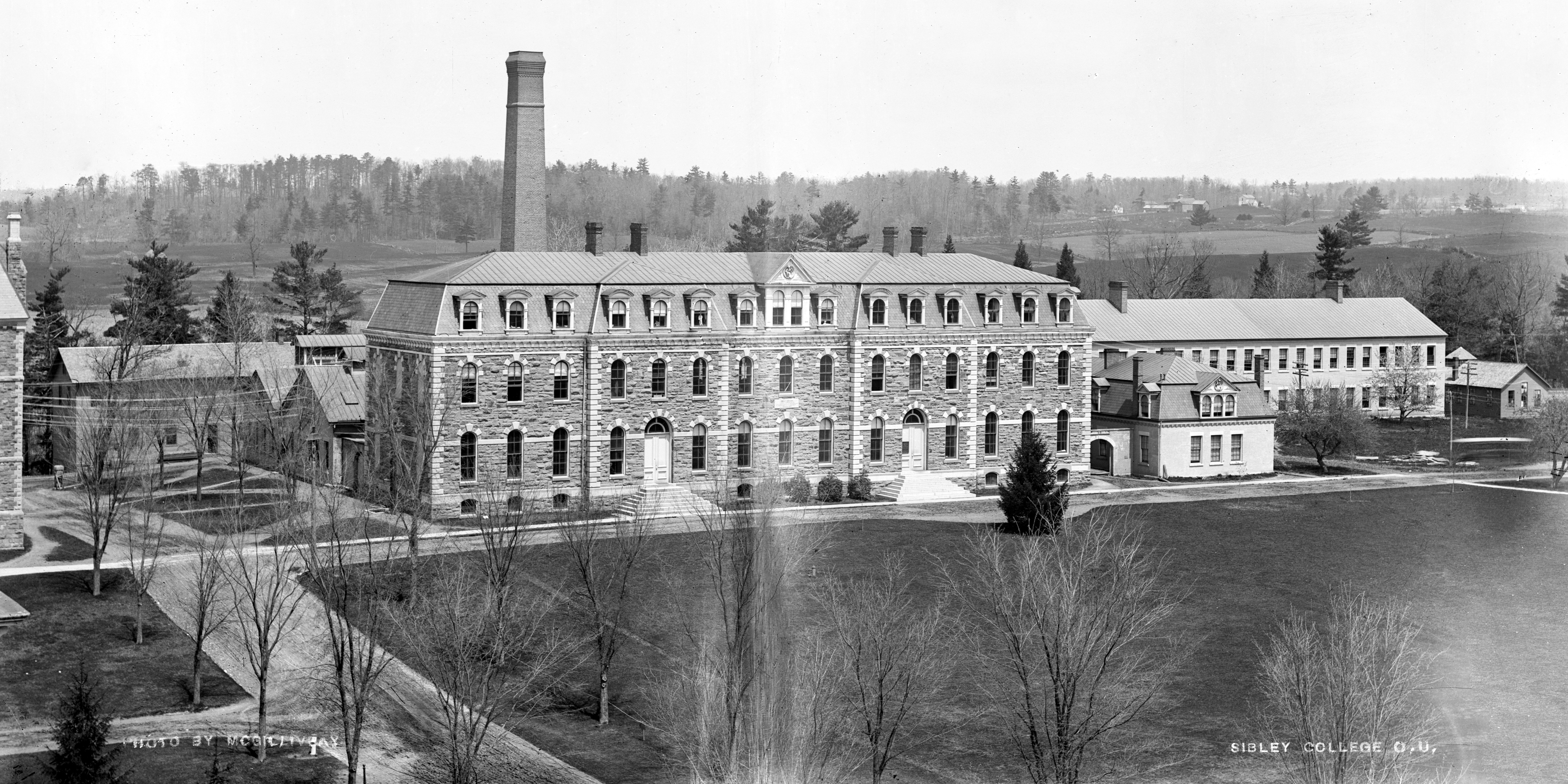 The Sibley School of Mechanical Engineering, now Sibley Hall, was built in three phases. The first building, built in 1870, was the western part (left side); was centered on the northern part of the Arts Quad. An identical second building was built a short distance east of it in 1894 (right side). Then in 1902 the center part (which includes the dome) was built, connecting them. (Also note the first building had the brick tower either behind it, or attached to it). This looks to be the first building, built 1870. Behind it and to the right is the Foundry, built 1883. So that would date this photo as between 1883 and 1894.